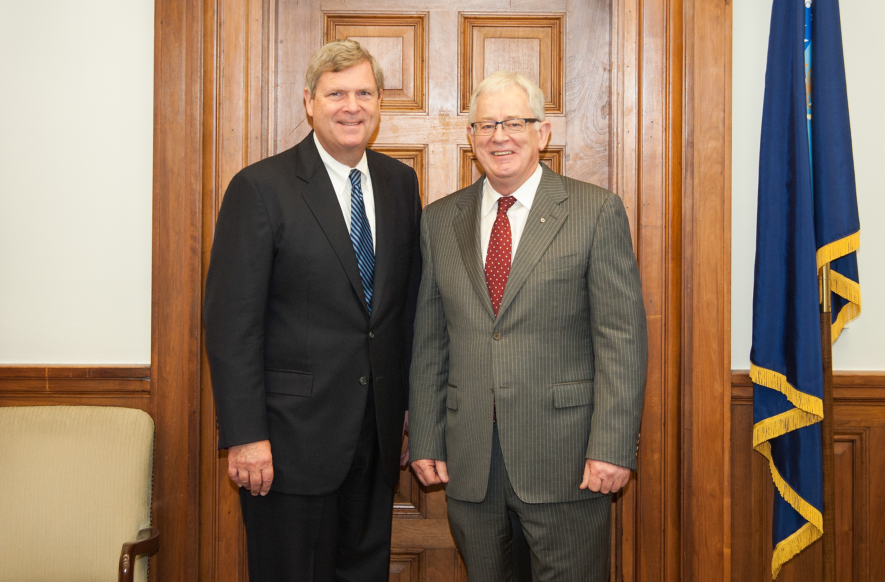 Agriculture Secretary Tom Vilsack (left) met with Andrew Robb, Australian Minister for Trade and Investment at the U.S. Department of Agriculture in Washington, DC on Thursday, Oct. 31, 2013. USDA photo by Bob Nichols.